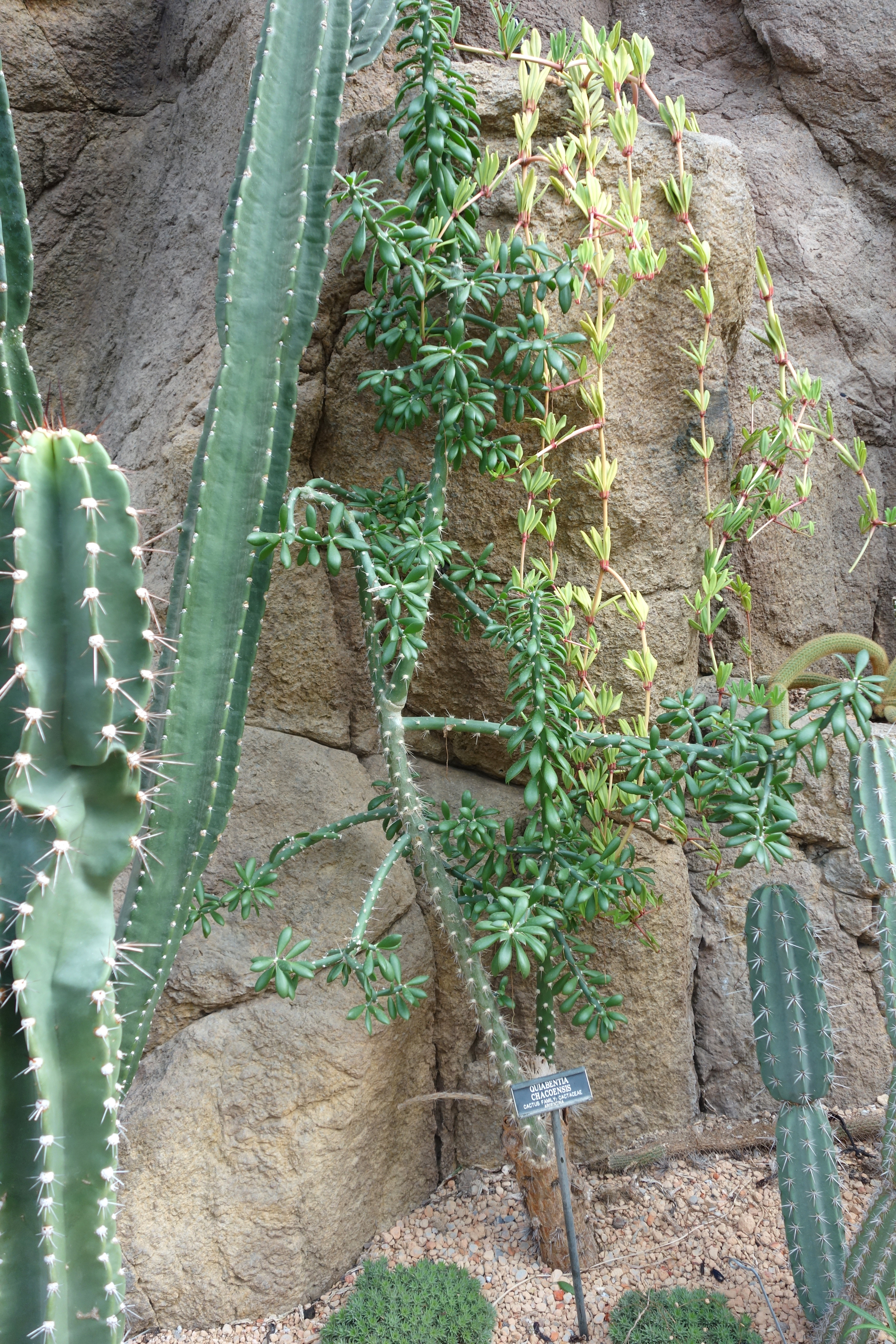 Botanical specimen in the Brooklyn Botanic Garden, Brooklyn, New York, USA.